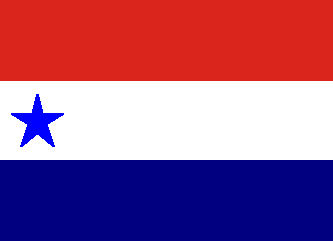 XXI Corps, 1st Division Badge